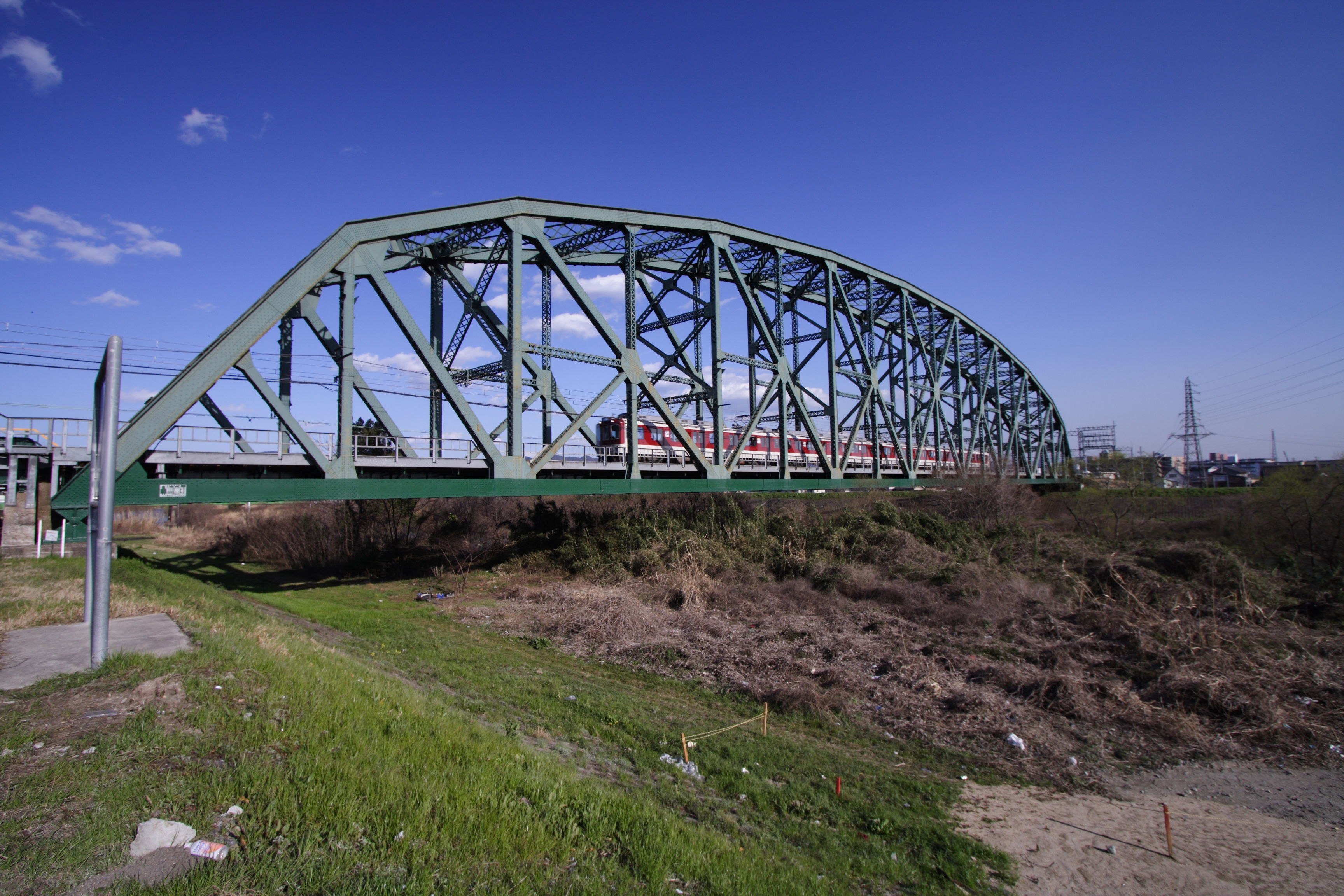 近鉄京都線・澱川橋梁（宇治川）京都市伏見区/Yodogawa Railway Bridge of Kintetsu Kyoto line (over Uji River) Kyoto, Japan